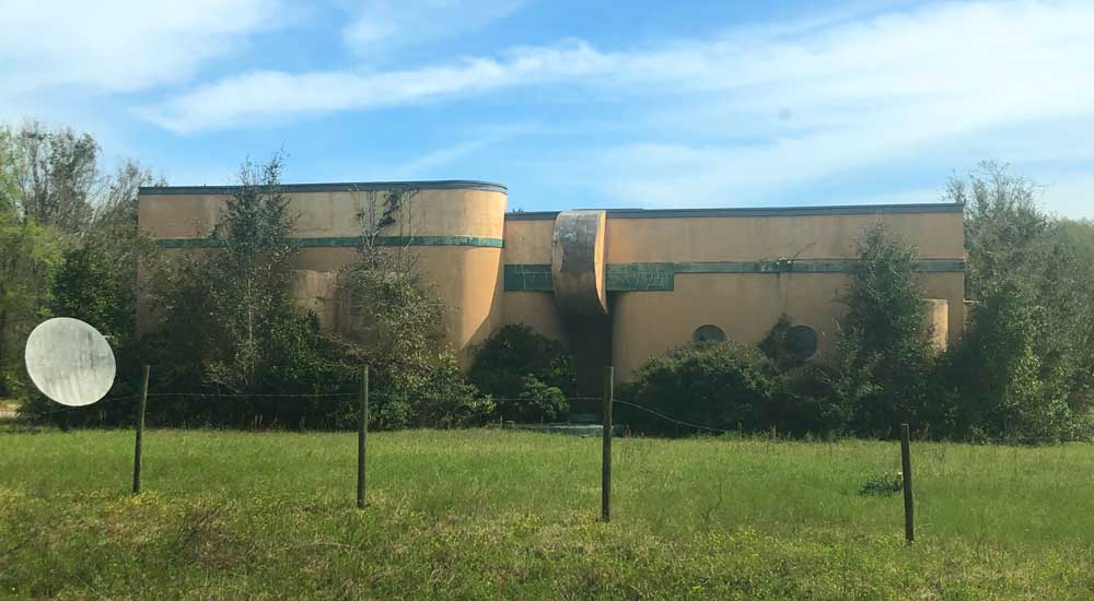 The former WALG (AM) studios on Dunbar in Albany, Georgia.